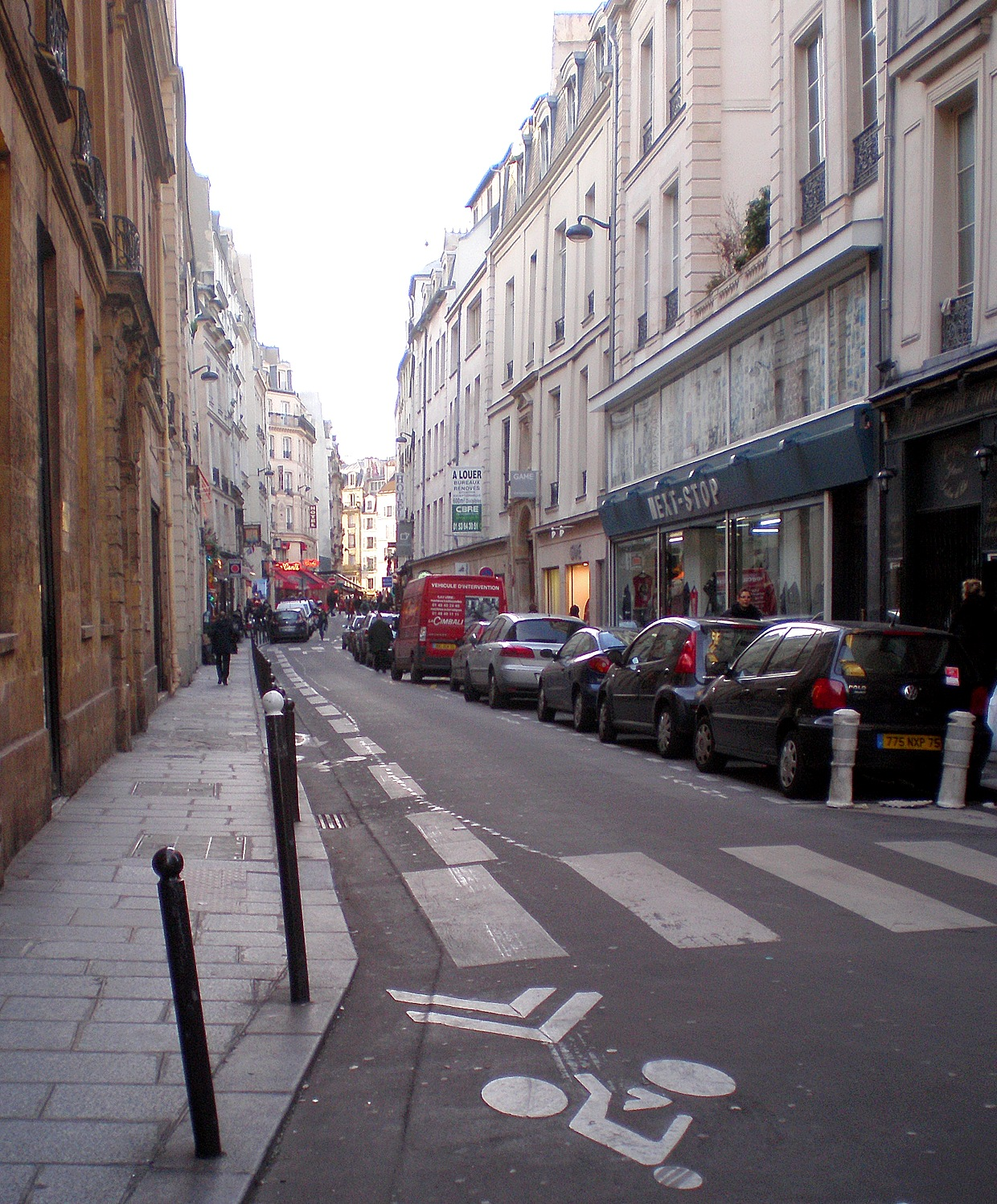 Saint-André-des-Arts street - Paris